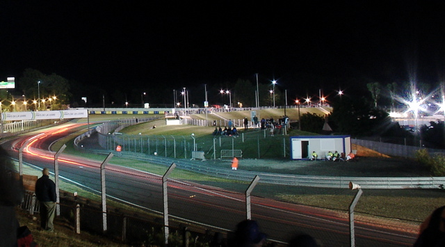 Tertre Rouge Le Mans at night